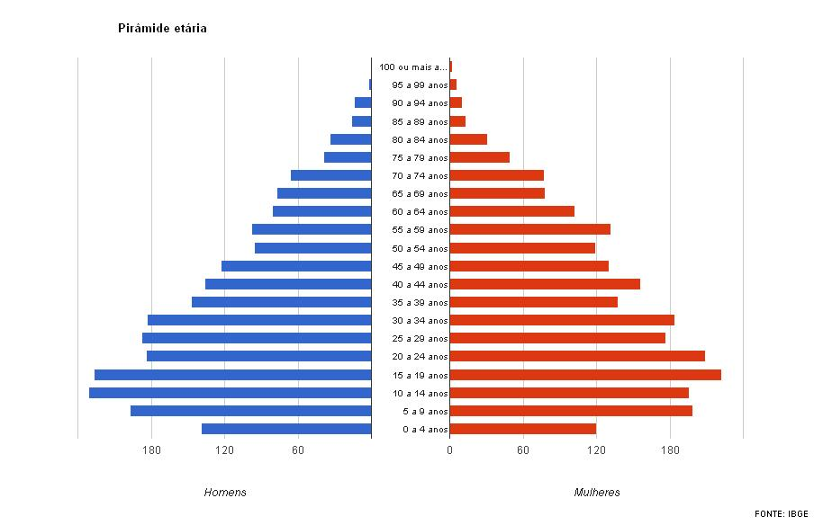 Population pyramid of Lagoa (Paraíba), Brazil